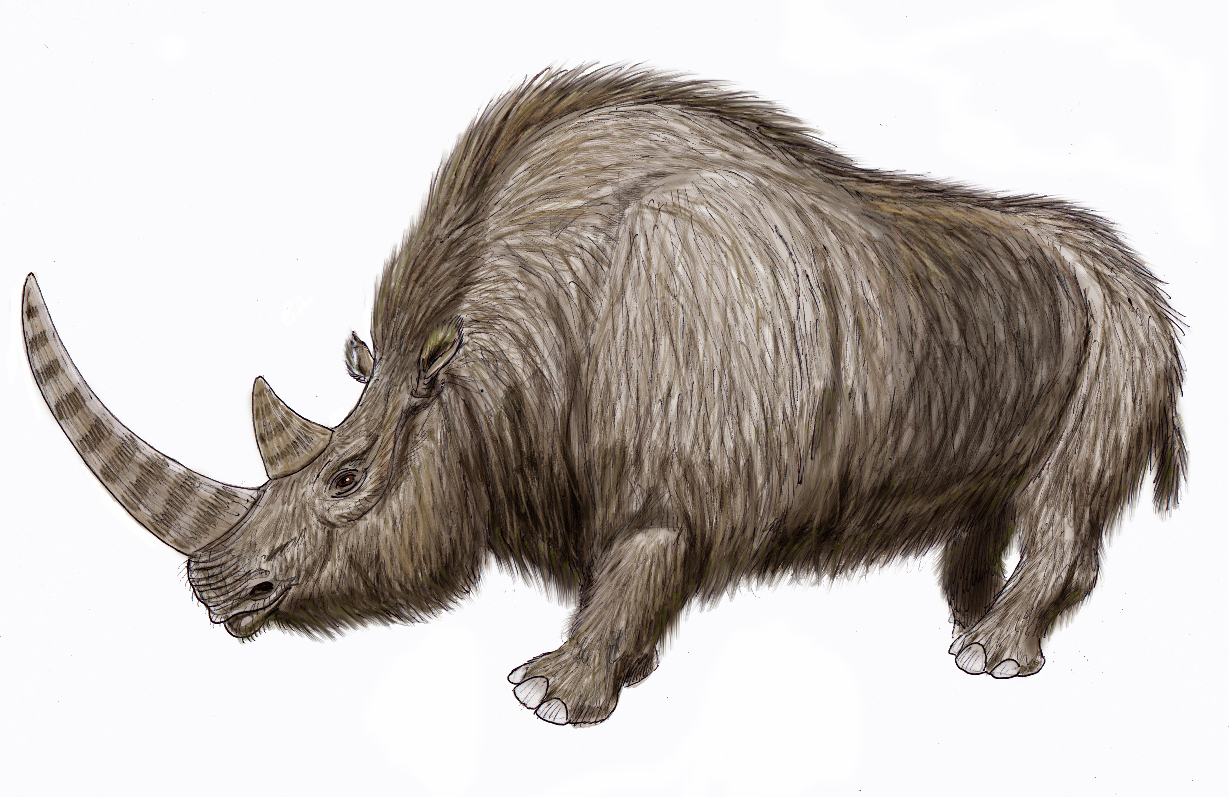 Reconstruction of Wooly Rhinoceros - Coelodonta antiquitatis, from Late Pleistocene of Europe and Asia